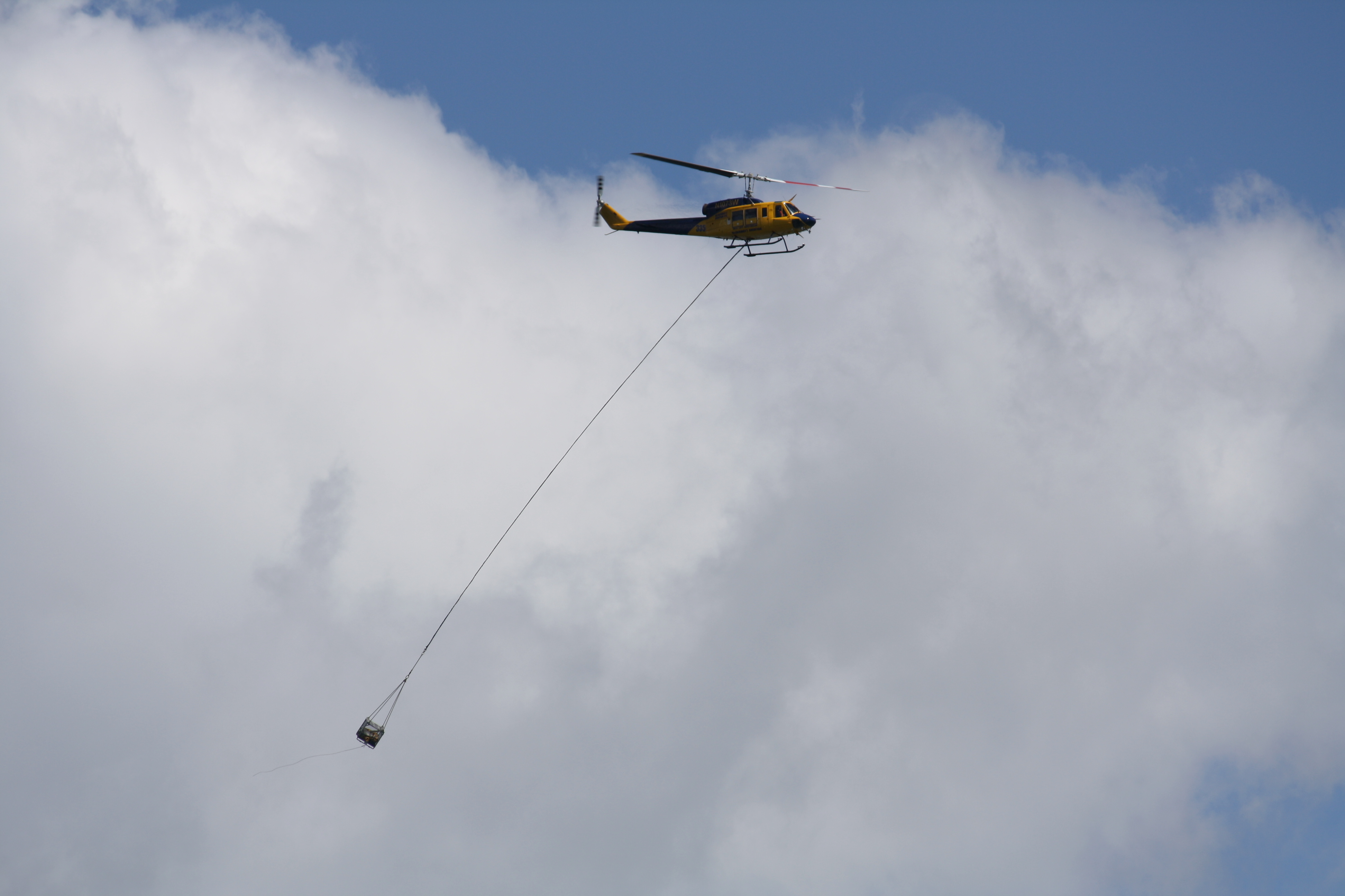 Chopper flying equipment to MV Rena in Tauranga.